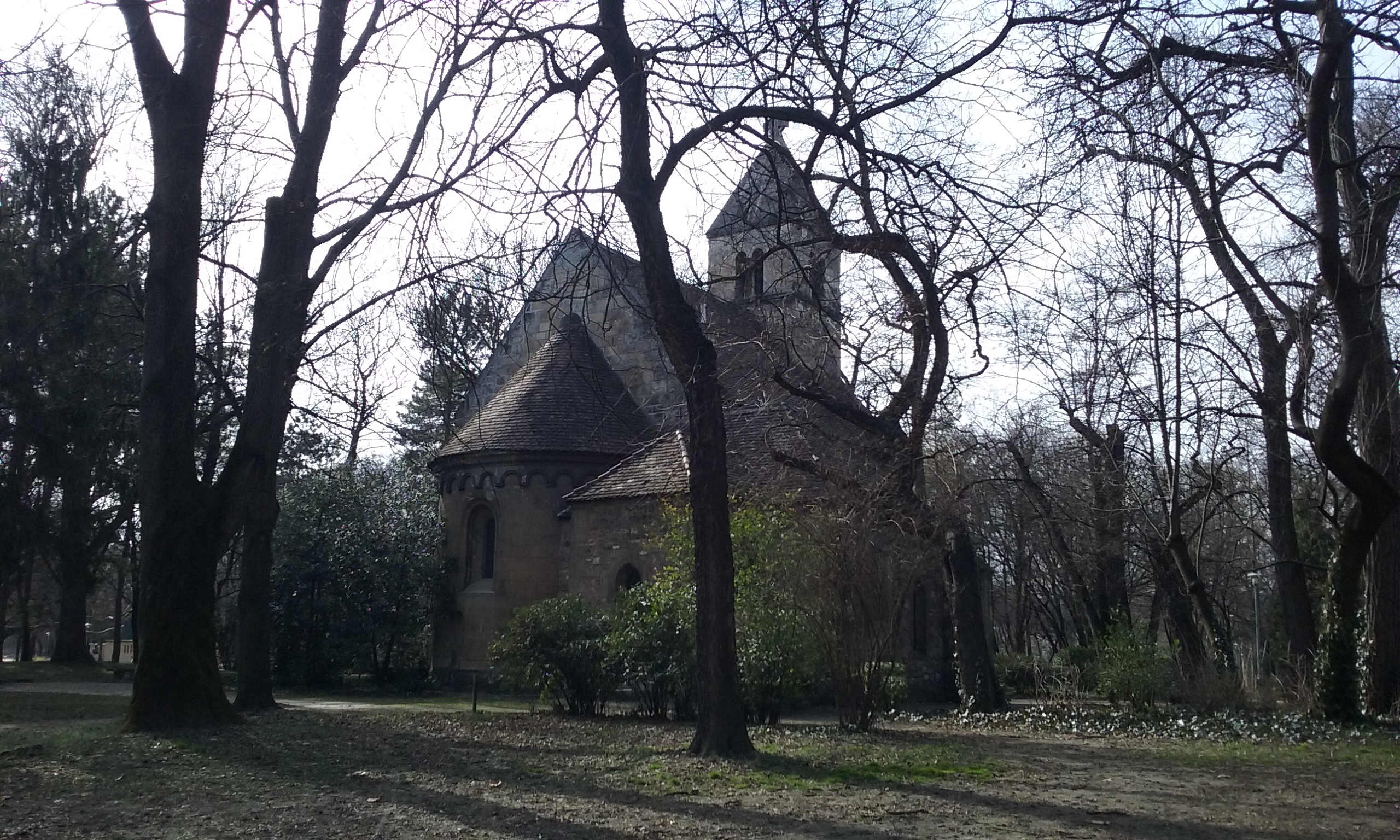 Chapel of Saint Michael, Margaret Island, Budapest, Hungary, on 29 February 2020